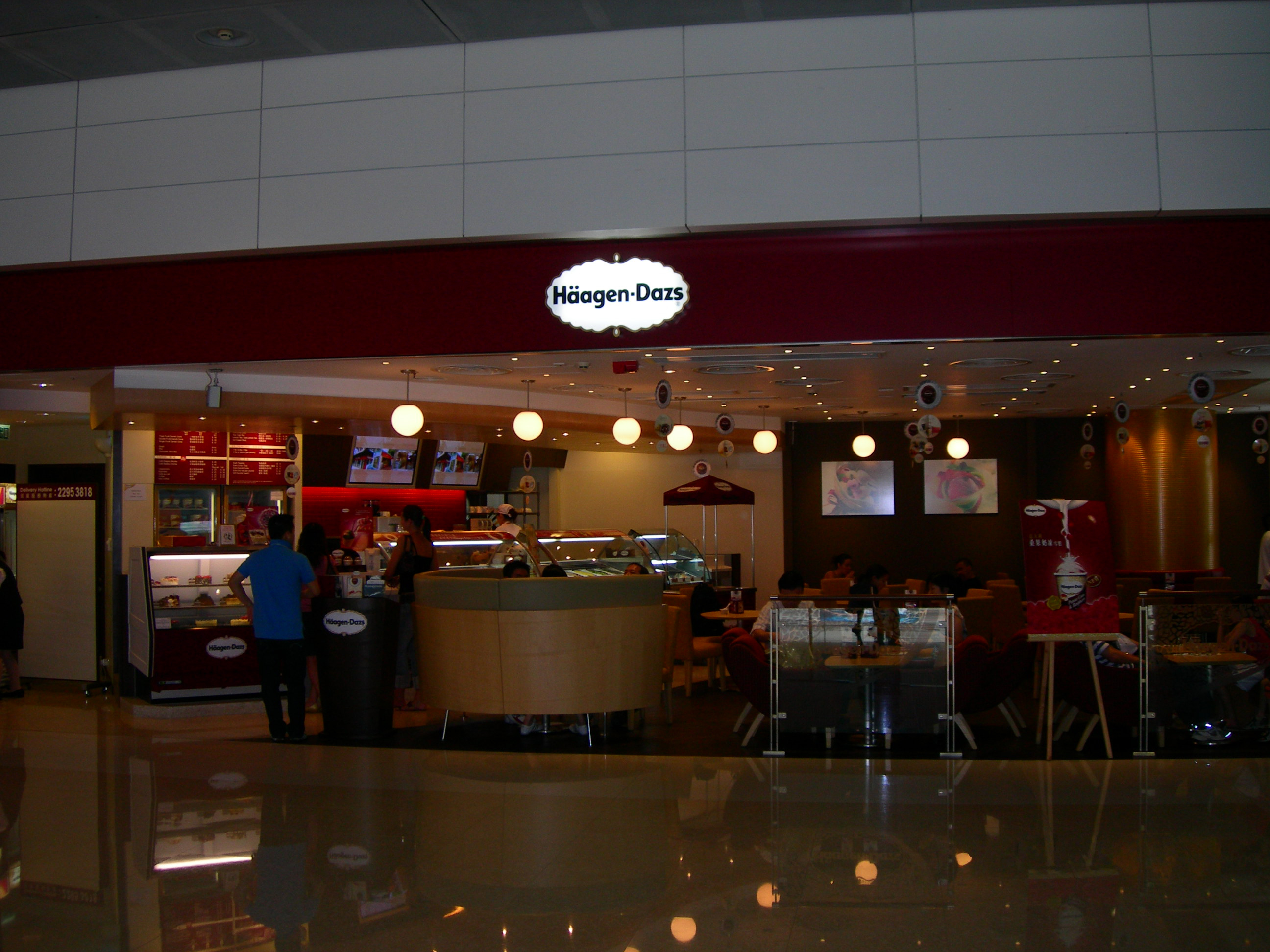 A Haagen Dazs shop in IFC Mall, Hong Kong